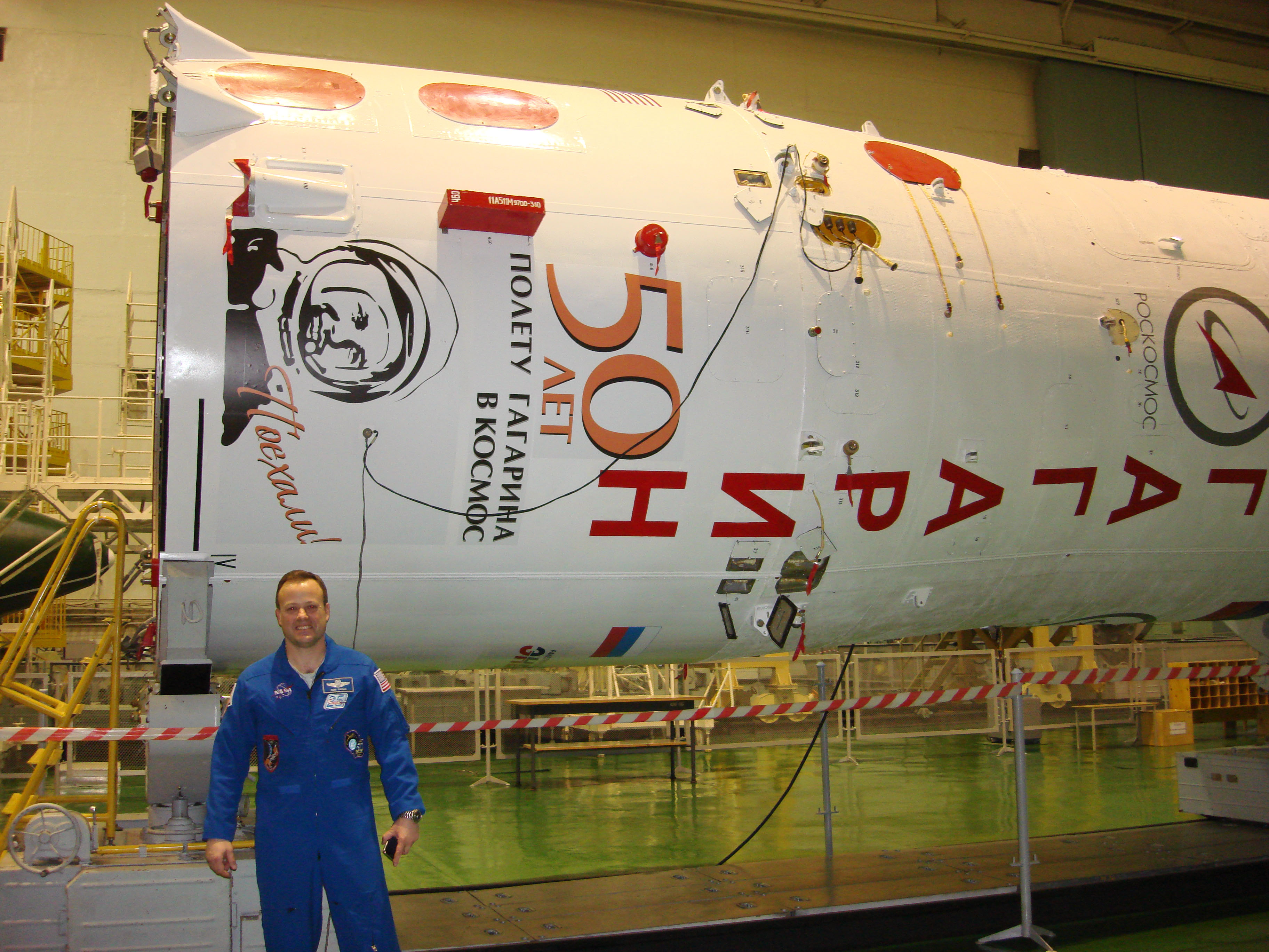 At the Baikonur Cosmodrome in Kazakhstan, NASA astronaut Ron Garan, Expedition 27 flight engineer, stands in front of the Soyuz booster March 22, 2011 that will carry him, along with Russian cosmonauts Alexander Samokutyaev, Soyuz commander, and Andrey Borisenko, flight engineer, to the International Space Station. Their launch is scheduled for April 5 (April 4, U.S. time). The Soyuz booster bears the name and likeness of Yuri Gagarin, the first human to fly in space and the Soyuz TMA-21 spacecraft has been dubbed "Gagarin", all in honor of the 50th anniversary of Gagarin's historic flight on April 12, 1961.